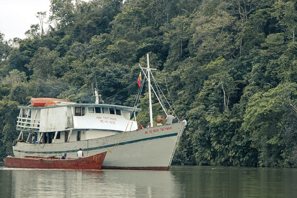 Rio Guapi navegable